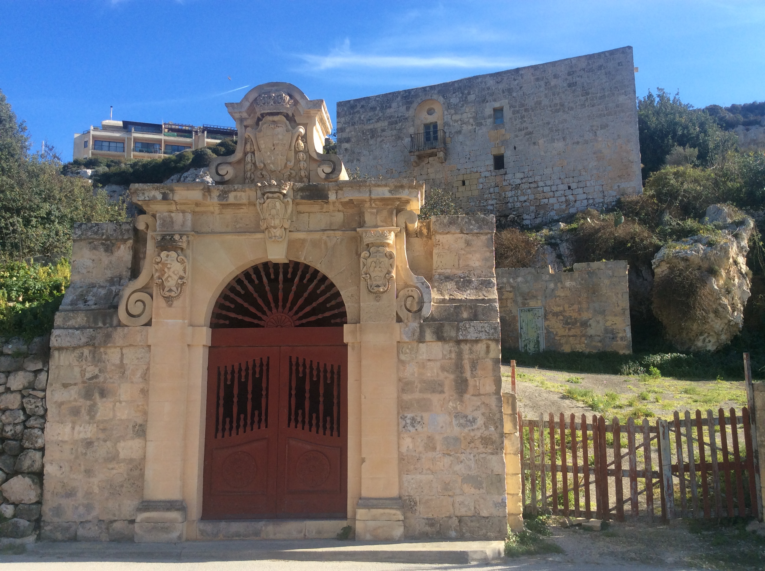 Mistra Gate Monte di Pietà